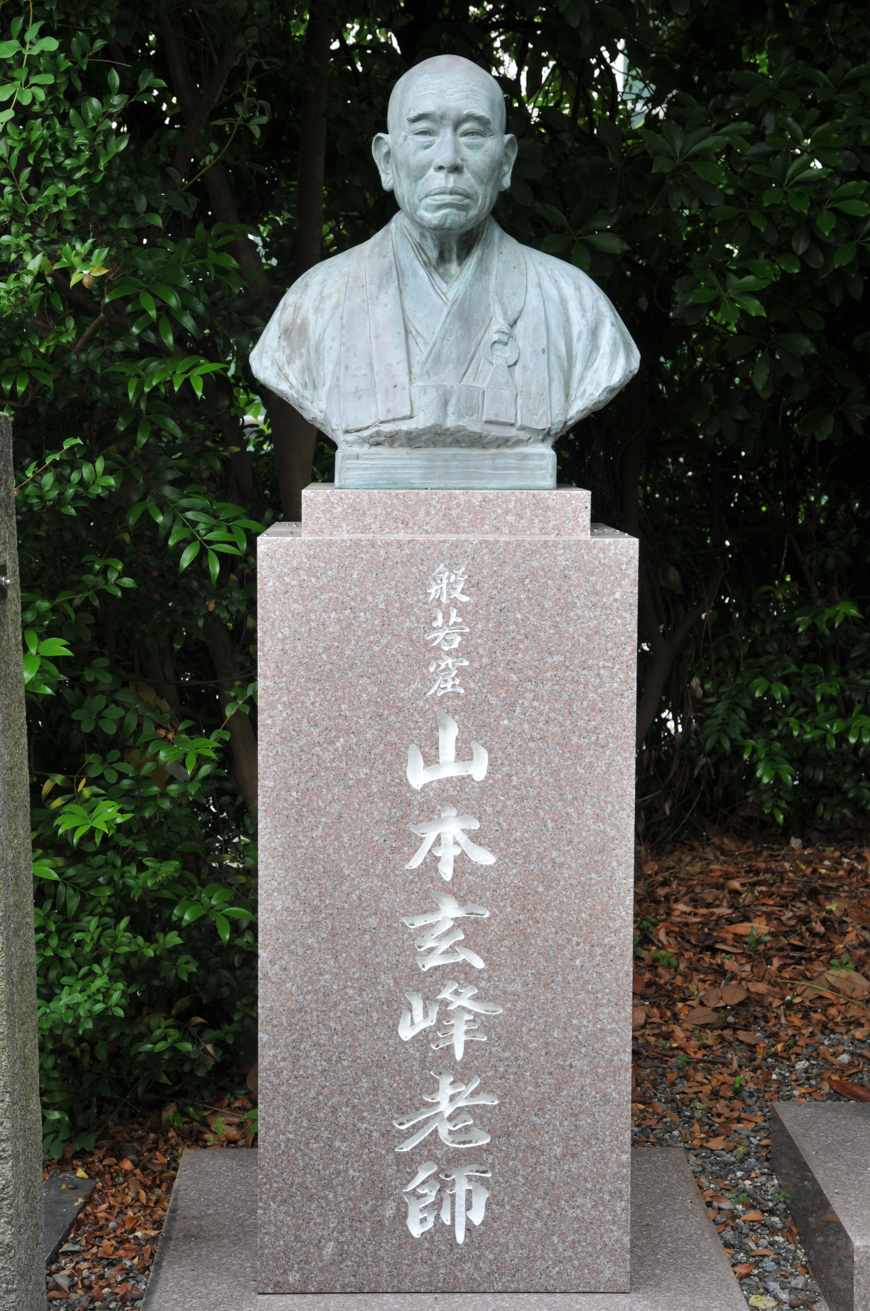 Statue of Yamamoto Genpō in Sekkei-ji